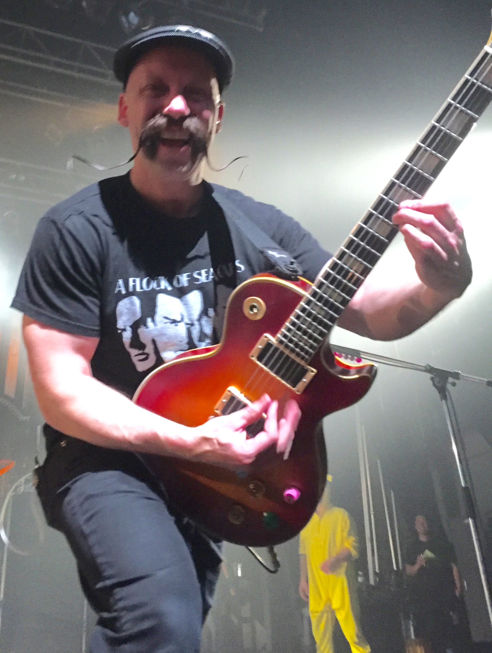 Dan Palmer at Shibuya O-East in Tokyo, Japan, Feb 2 2016